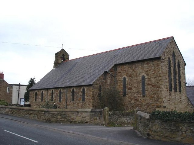 Parish Church Ffynnongroyw. The parish church to the centre of the village